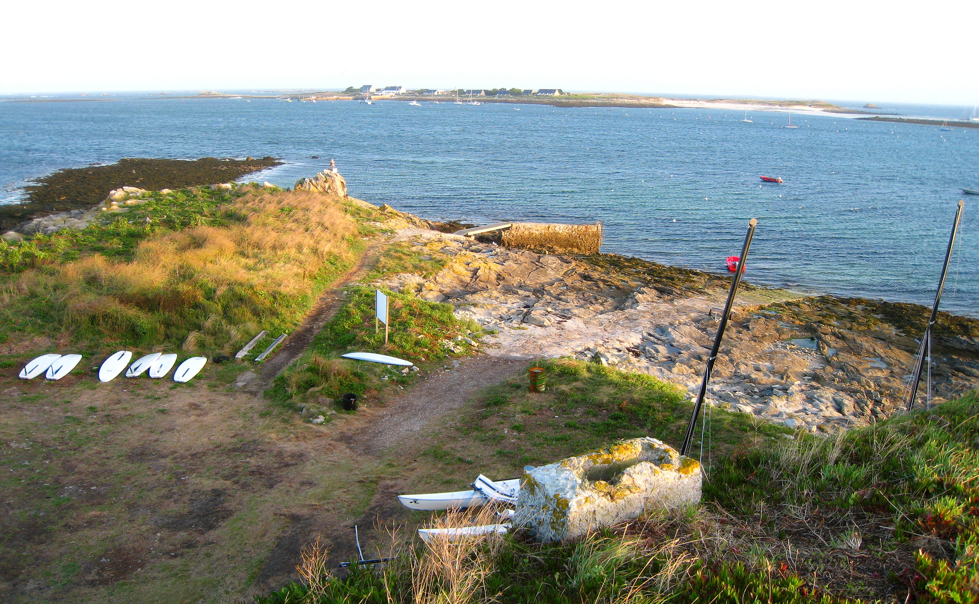 Glénan Islands